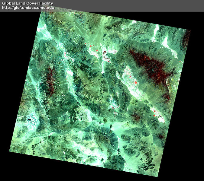 Death Valley from Space